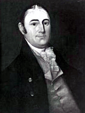 Peterson Goodwyn, US Representative from Virginia